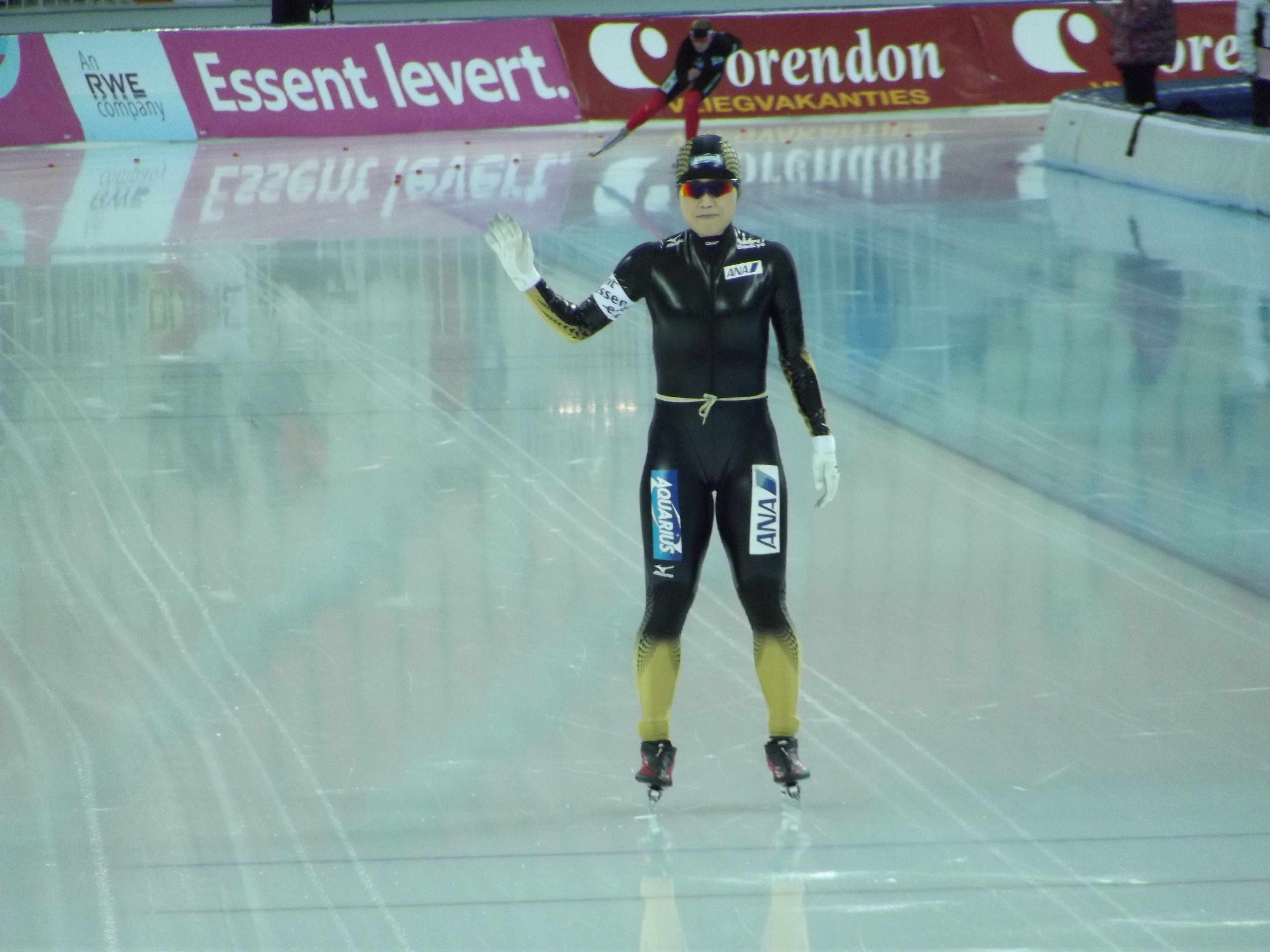 At 2013 World Single Distance Speed Skating Championships